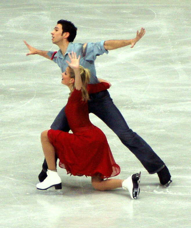 Tanith Belbin and Benjamin Agosto at the World championships 2004 in Dortmund in Germany